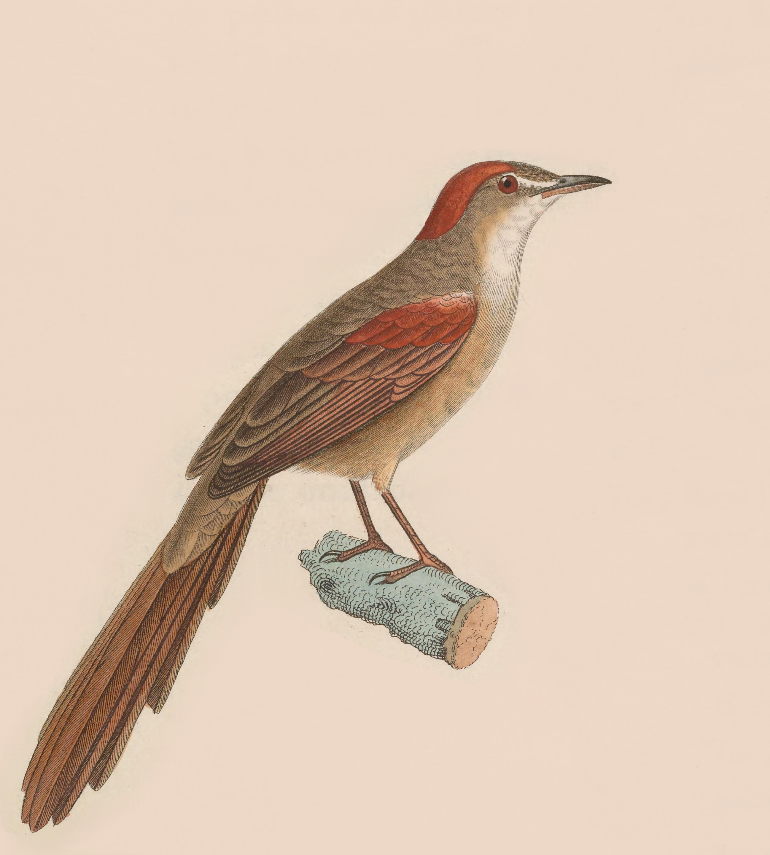 « Synallaxis albescens » = Synallaxis albescens (Pale-breasted Spinetail)